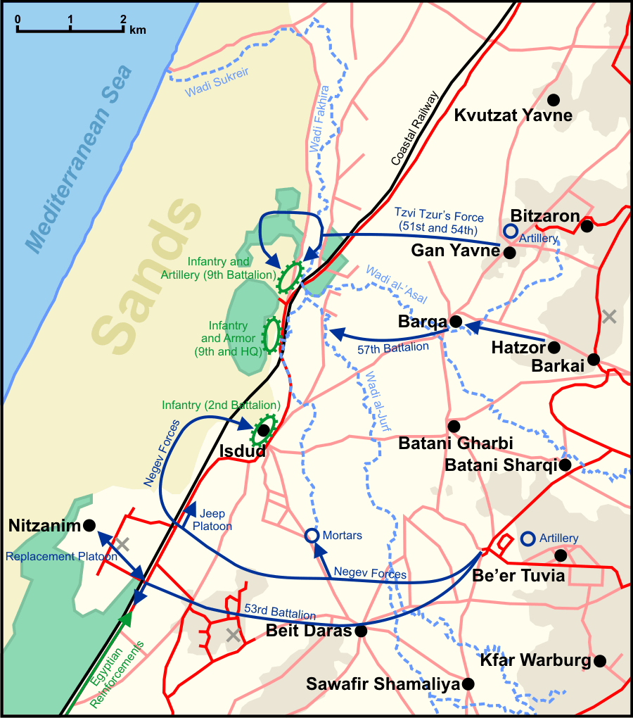 Map of the Israeli attacks on Egyptian positions during Operation Pleshet. Note: The map is as geographically accurate as possible, although since some of the streams were since diverted, and most of the maps from the period do not exactly match, it is difficult to say for sure, and small errors likely exist.